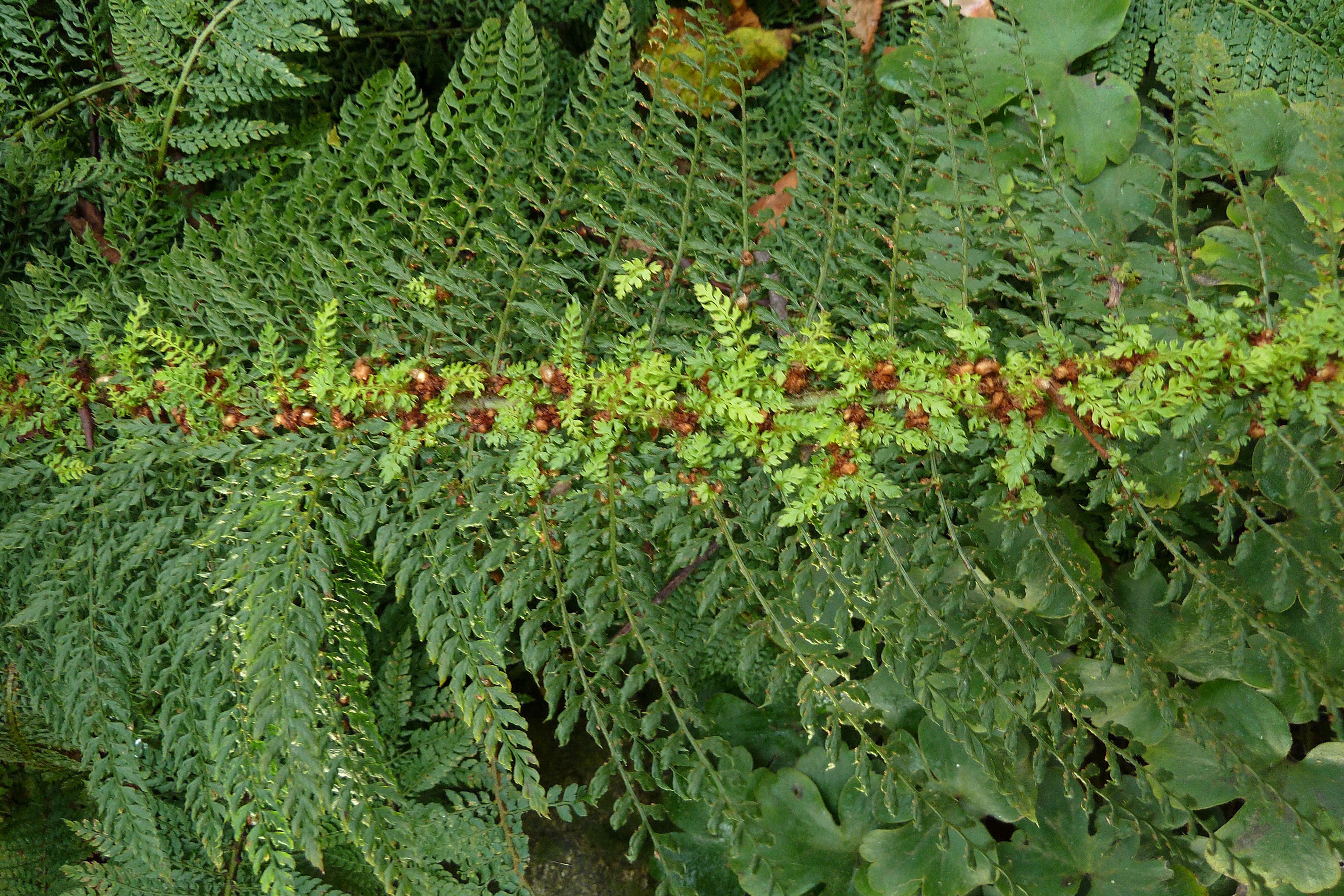 Soft Shield Fern (Polystichum setiferum 'Plumosum densum')